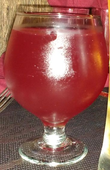 A glass of cherry juice